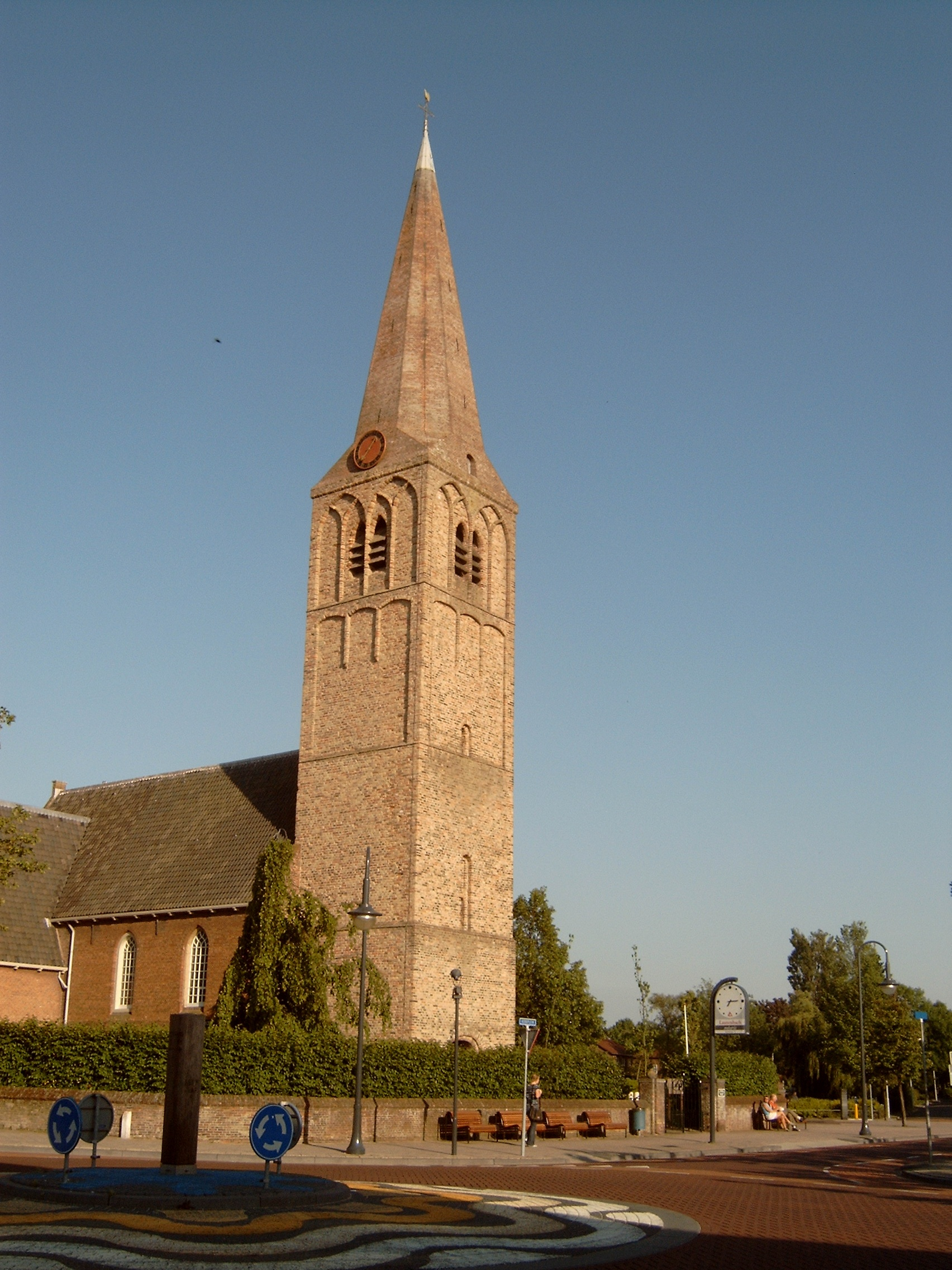 Heemskerk, church